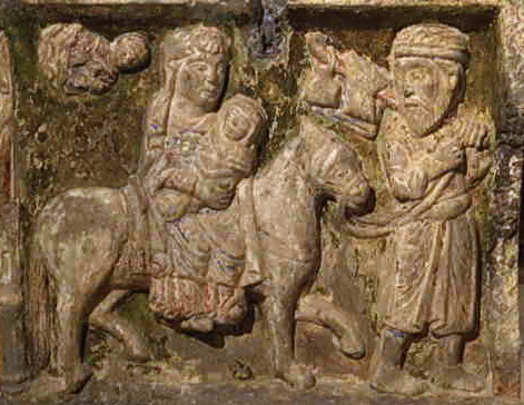 Sepulchral of Ramon de Roda at San Vicente Cathedral, in Roda de Isábena, Huesca, Spain.